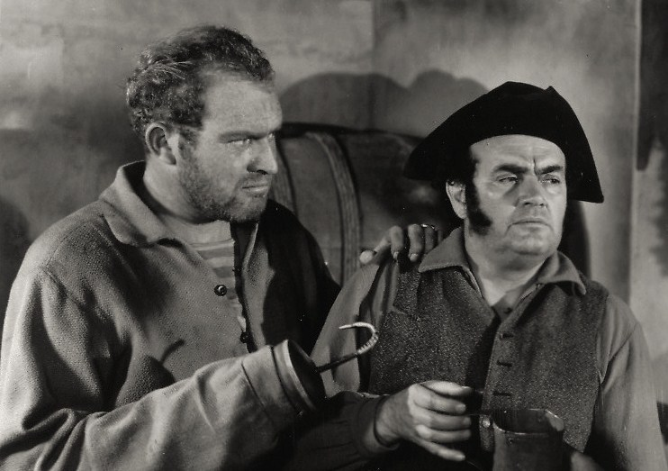 Gene Evans & Rhys Williams in Mutiny - publicity still (cropped : see source)